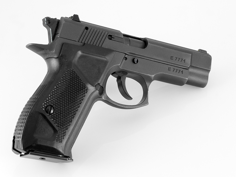 Fort-12 Pistol.